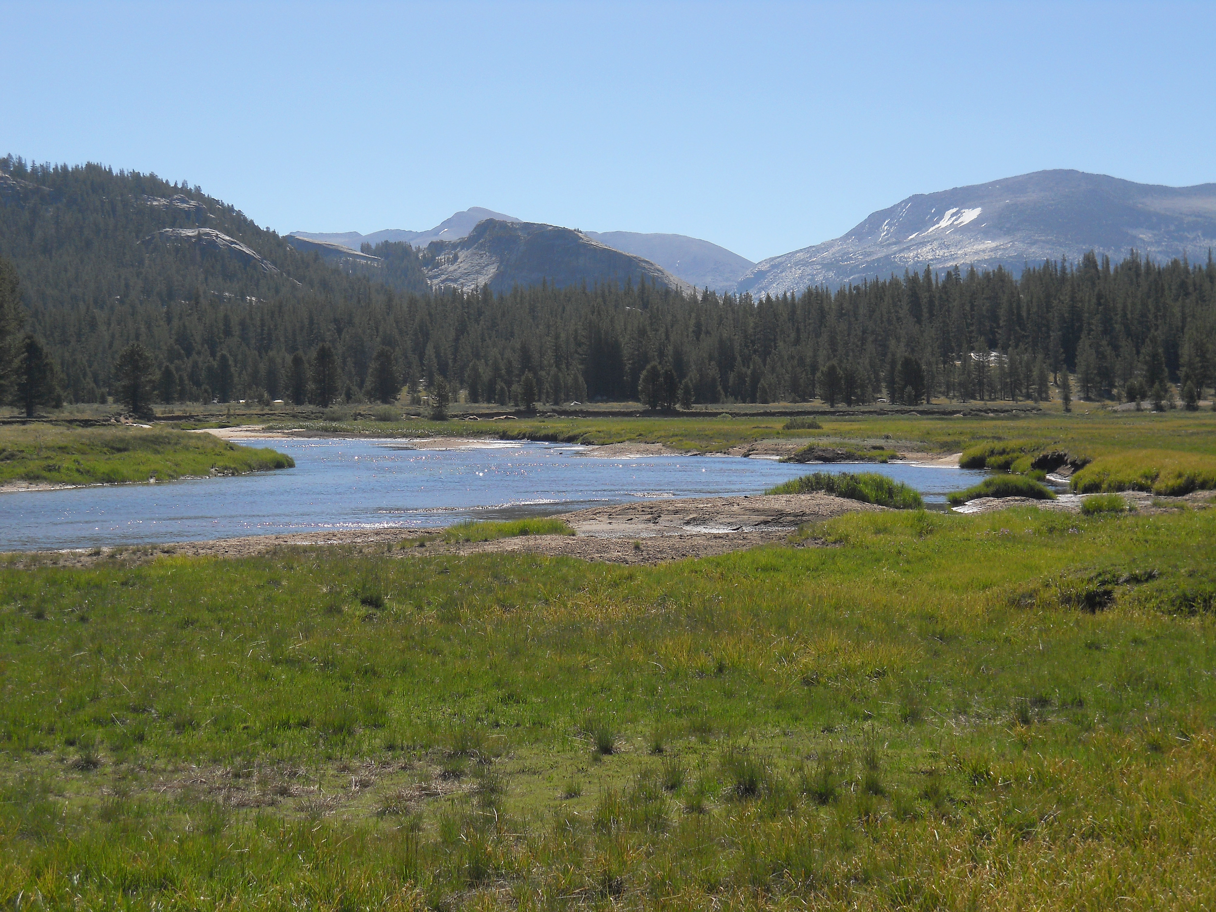 Tuolumne Meadows---Tuolumne River in West meadow, looking East